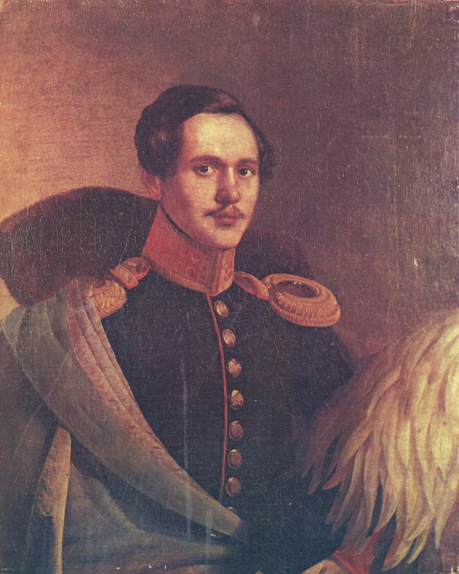 Russian poet Mikhail Yurievich Lermontov